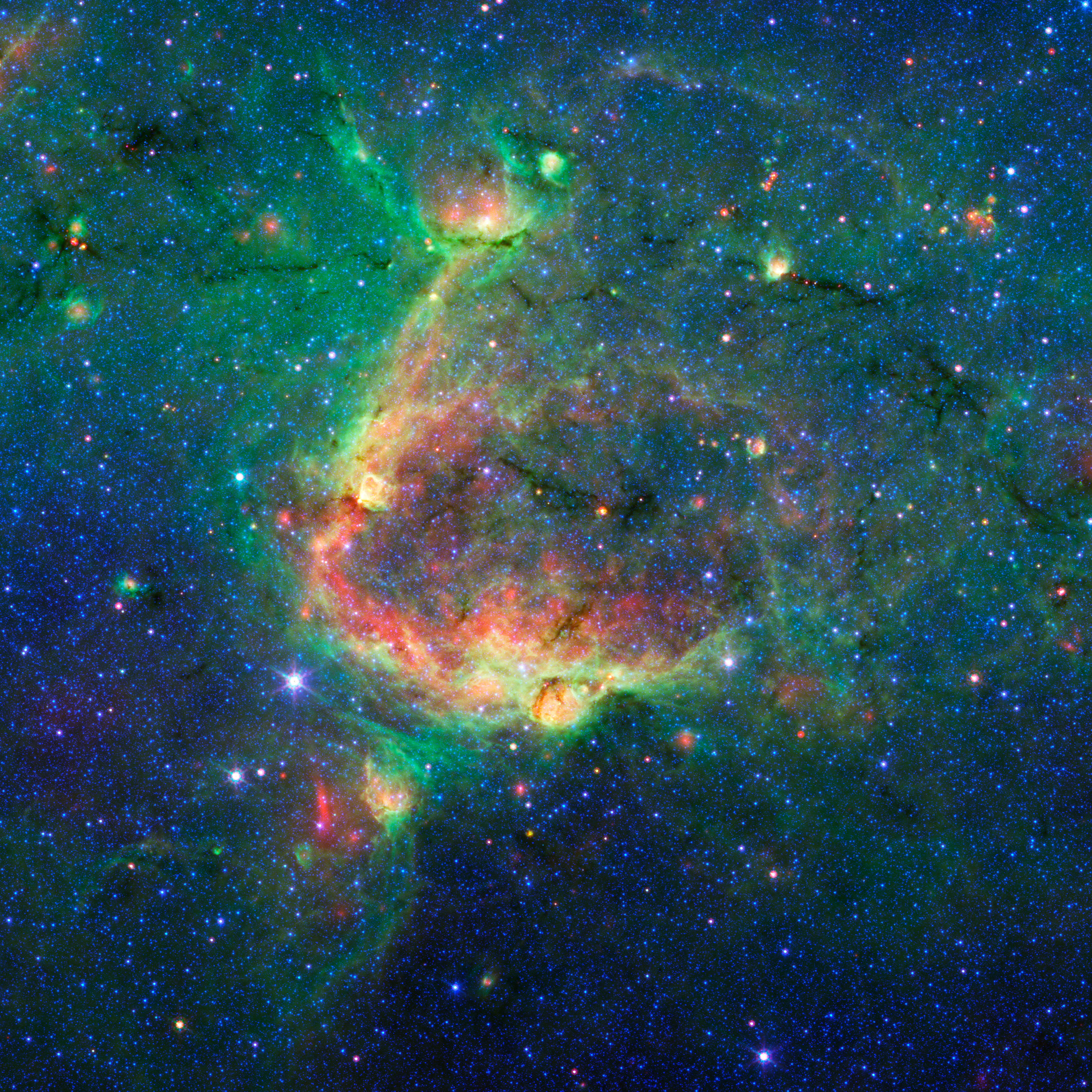 This infrared image shows a striking example of what is called a hierarchical bubble structure, in which one giant bubble, carved into the dust of space by massive stars, has triggered the formation of smaller bubbles. The large bubble takes up the central region of the picture while the two spawned bubbles, which can be seen in yellow, are located within its rim. NASA's Spitzer Space Telescope took this image in infrared light. The multiple bubble family was found by volunteers participating in the Milky Way Project ( This citizen science project, a part of the Zooniverse group, allows anybody with a computer and an Internet connection to help astronomers sift through Spitzer images in search of bubbles blown into the fabric of our Milky Way galaxy. The bubbles are formed by radiation and winds from massive stars, which carve out holes within surrounding dust clouds. As the material is swept away, it is thought to sometimes trigger the formation of new massive stars, which in turn, blow their own bubbles. The images in the Milky Way project are from Spitzer's Galactic Legacy Infrared Mid-Plane Survey Extraordinaire, or Glimpse, project, which is mapping the plane of our galaxy from all directions. As of June 2013, 130 degrees of the sky have been released. The full 360-degree view, which includes the outer reaches of our galaxy located away from its center, is expected soon.